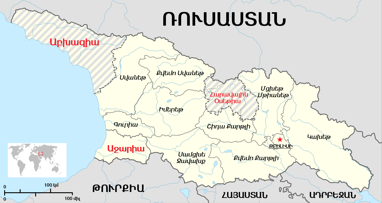 Georgia admin. distr.